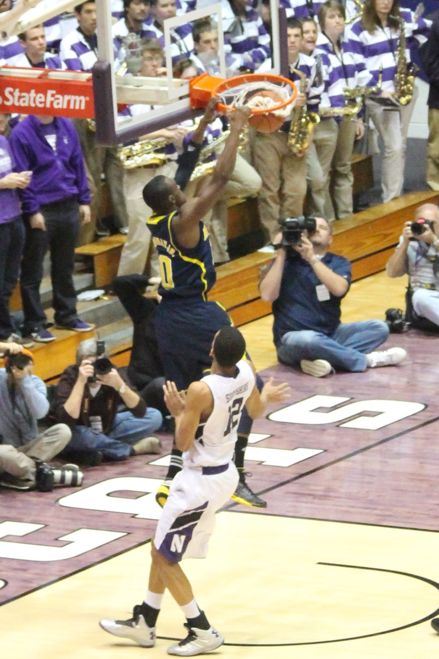 Tim Hardaway, Jr. shooting a slam dunk for the 2012–13 Michigan Wolverines men's basketball team against 2012–13 Northwestern Wildcats men's basketball team